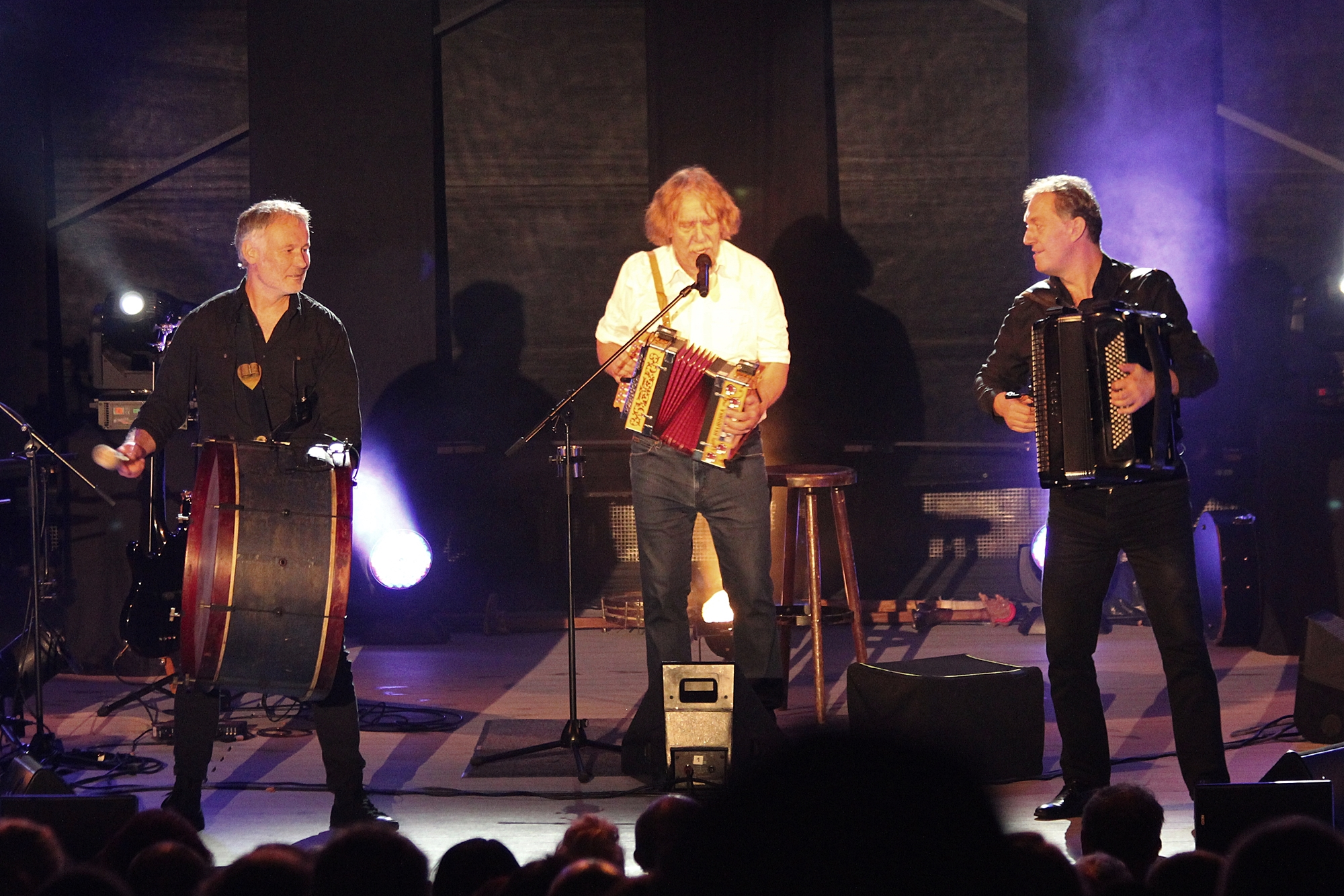 Jaromír Nohavica, accordion player Robert Kusmierski, drummer Pavel Planka, concert in Ostrawa-Poruba